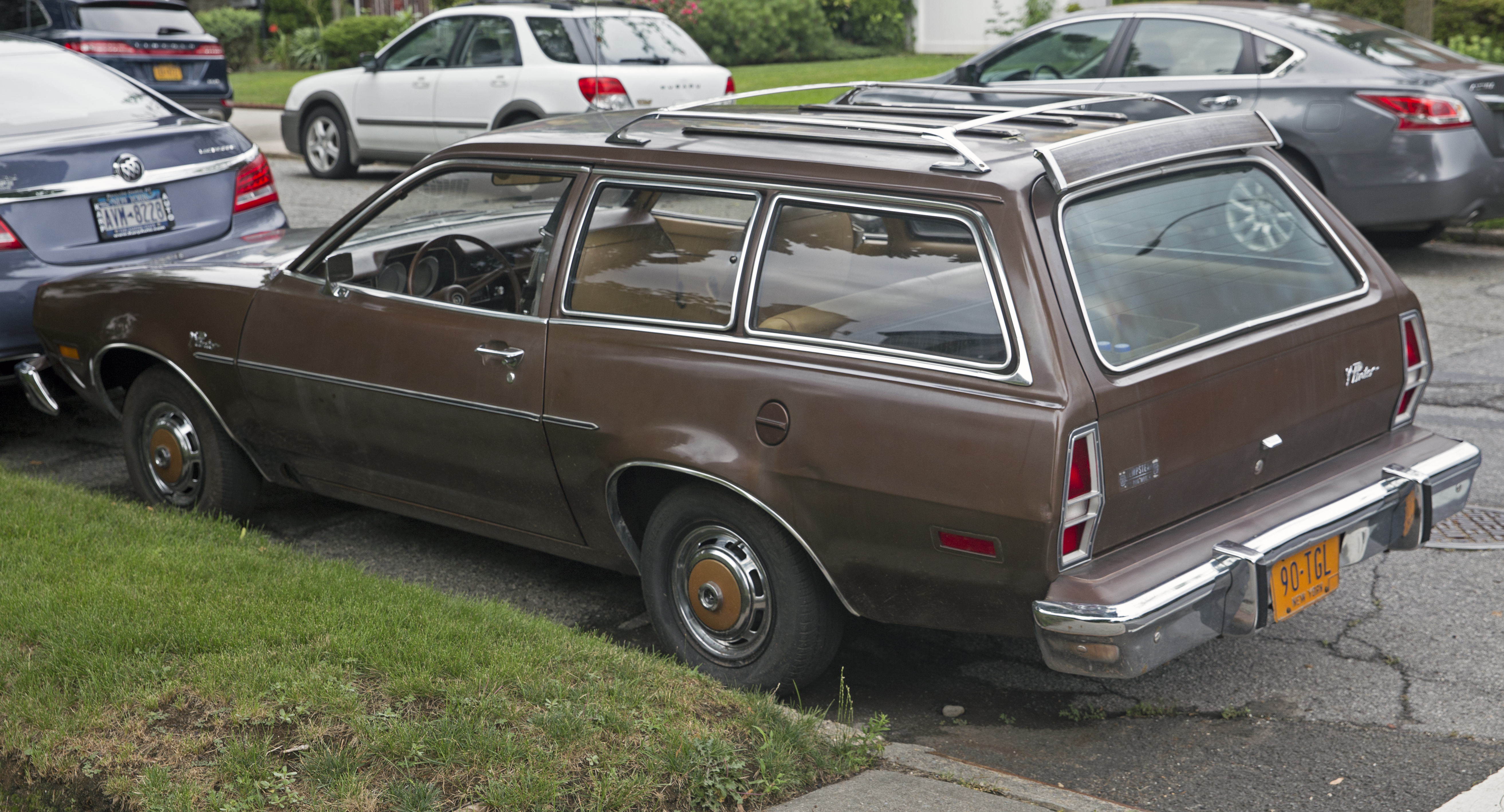 An extremely brown 1974 Ford Pinto two-door wagon assembled in Metuchen, NJ. 2.3-liter, two-barrel inline-four.